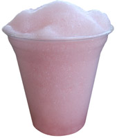 The oxygen cocktail is a rich foam containing any liquid and thousands of oxygen molecules.